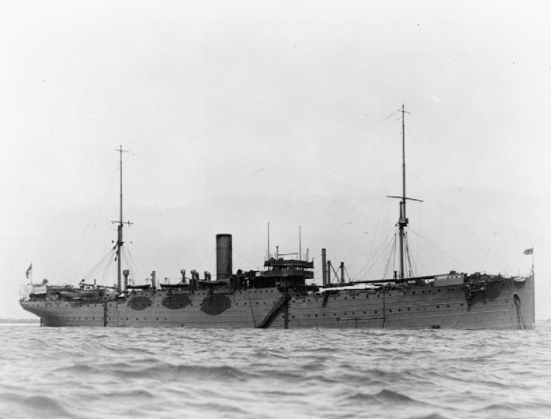 Photograph of British fleet repair ship HMS Cyclops.